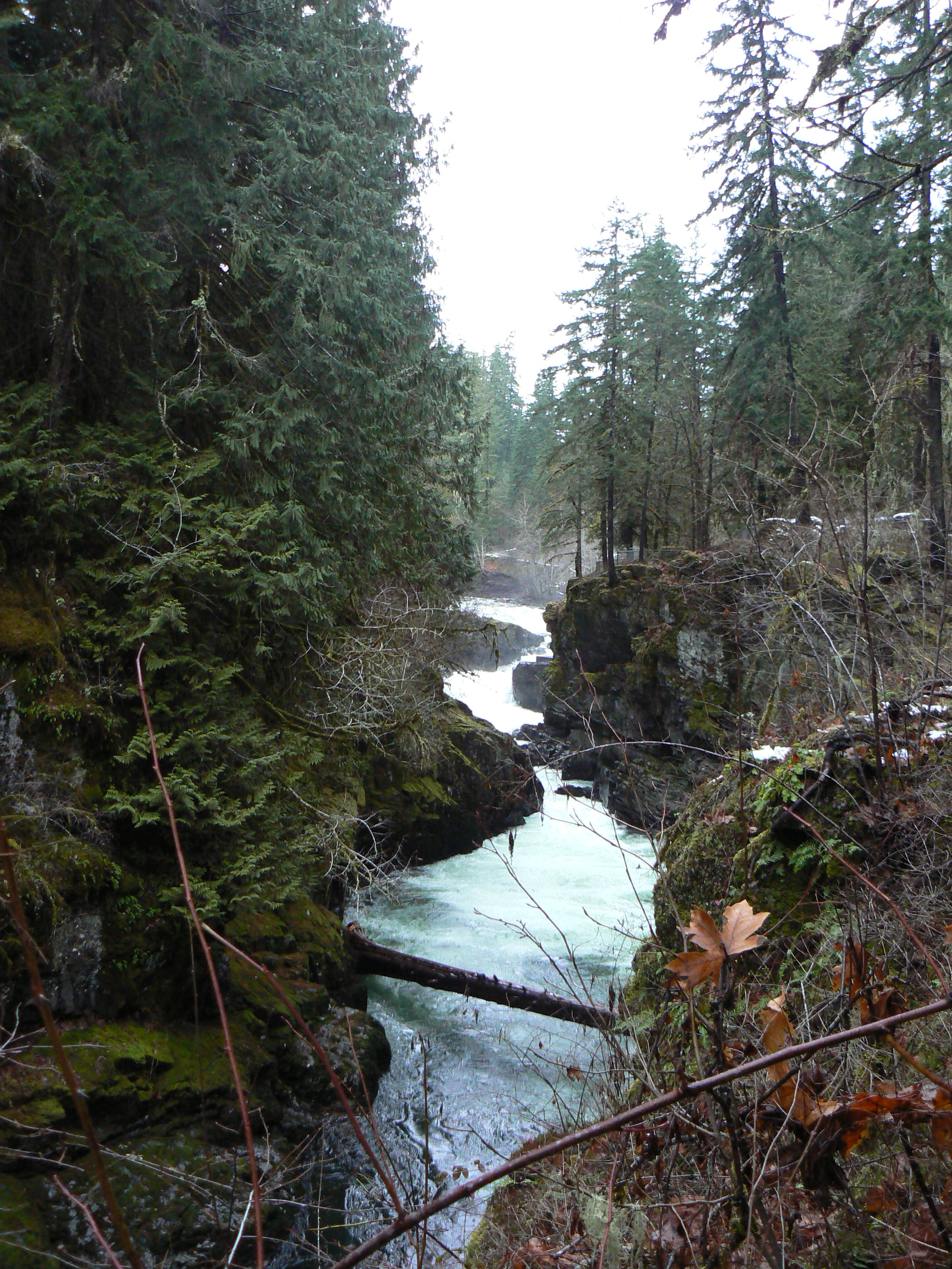 Gorge of Stamp Falls in Stamp River Provincial Park on a wet December day. The fish ladder was built to bypass it.